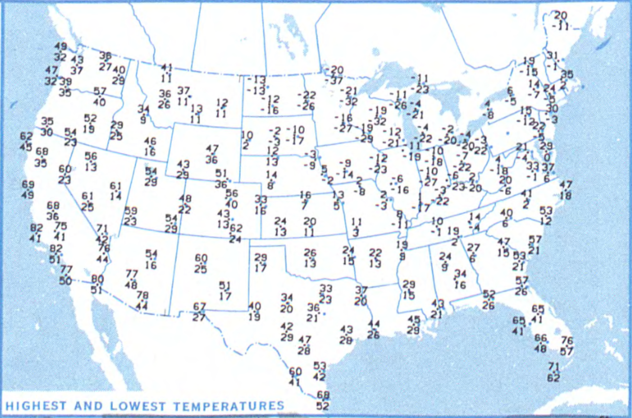 Maximum is the highest temperature from 7 AM to 7 PM on January 18, 1994, and minimum is the lowest temperature from 7 PM to 7 AM EST on the 19th.